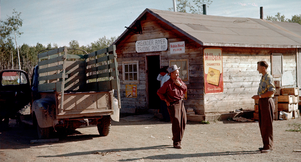 Taken by my father, Donald W. Bray, 1925-2002